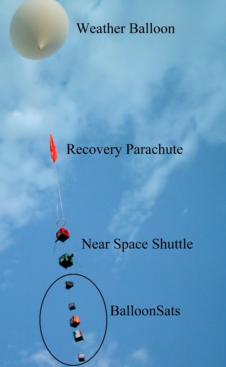 Image showing balloon, parachute, tracking modules, and BalloonSats